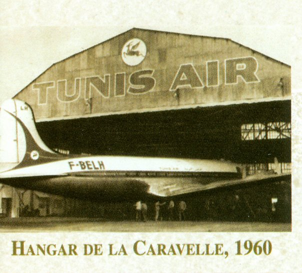 De la Caravelle Hangar, Tunisair 1960 (Tunisia)